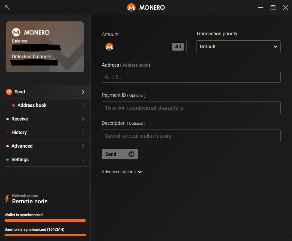 Monero GUI 0.12.3.0 running on Windows 10